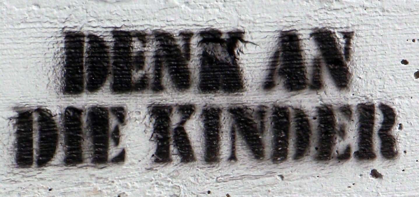 Think of the children Think of the children